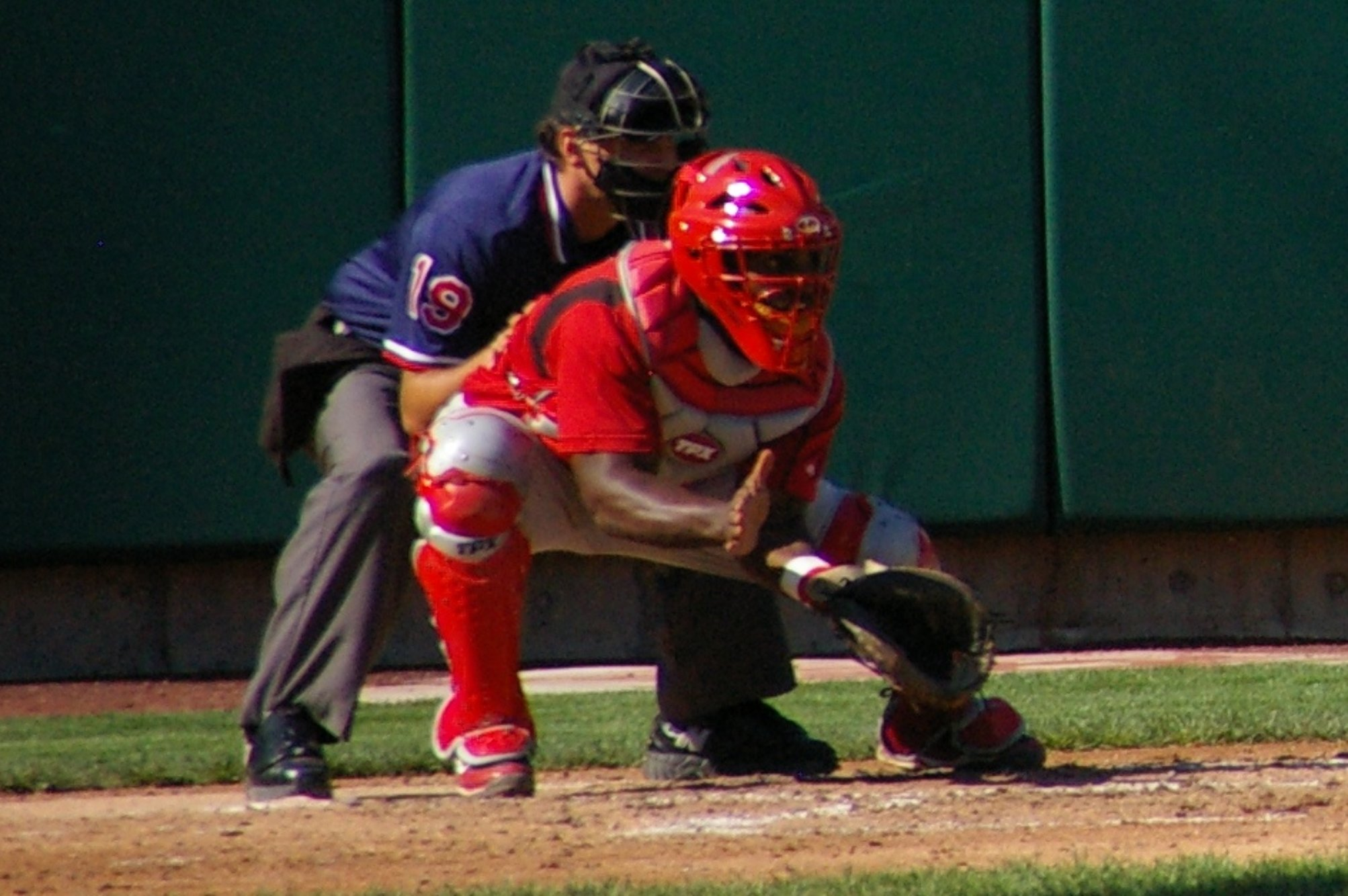 Ángel Salomé, a catcher for the minor league Nashville Sounds, crouches behind home plate during a game at Spring Mobile Ballpark on August 9, 2009